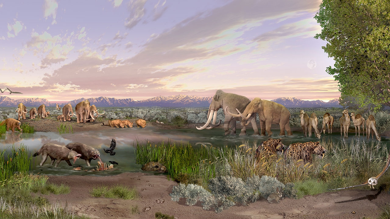 Paleontological landscape painting, White Sands National Park, United States, featuring six species of extinct Ice Age mammals - Columbian mammoths, a Harlan's ground sloth (left background), dire wolves (left foreground), American lions (center/left background), camelops (right background), and saber-toothed cats (right foreground, in reeds) - and a few other small creatures such as a rabbit, owl and two black birds.